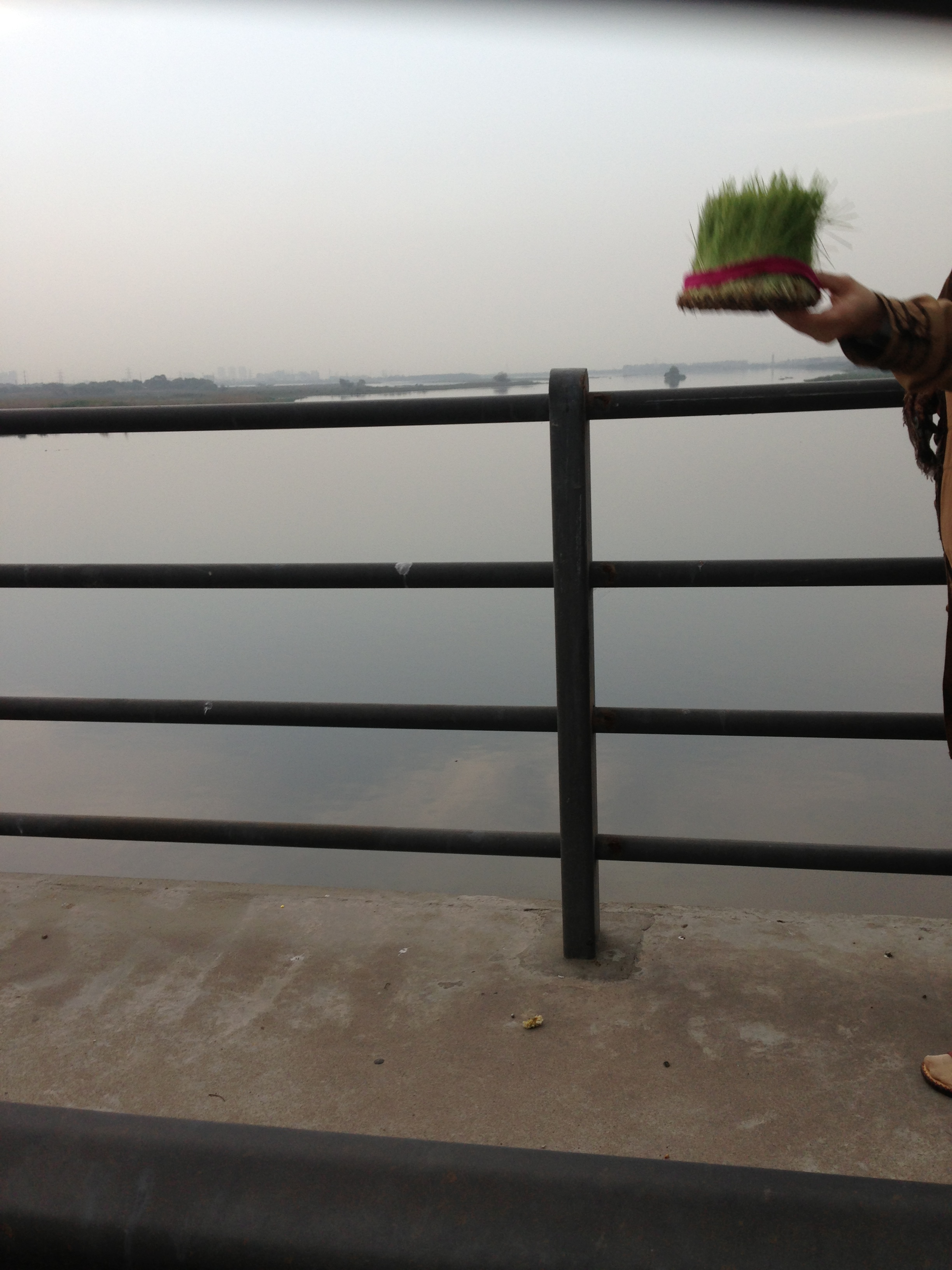 13NouRooz=13Bedar=13nowrouzAt the end of NowRuz picnics people throw away the green sprouts, known as Sabzeh (from the traditional Haft Seen table that they prepared for the first day of New Year)